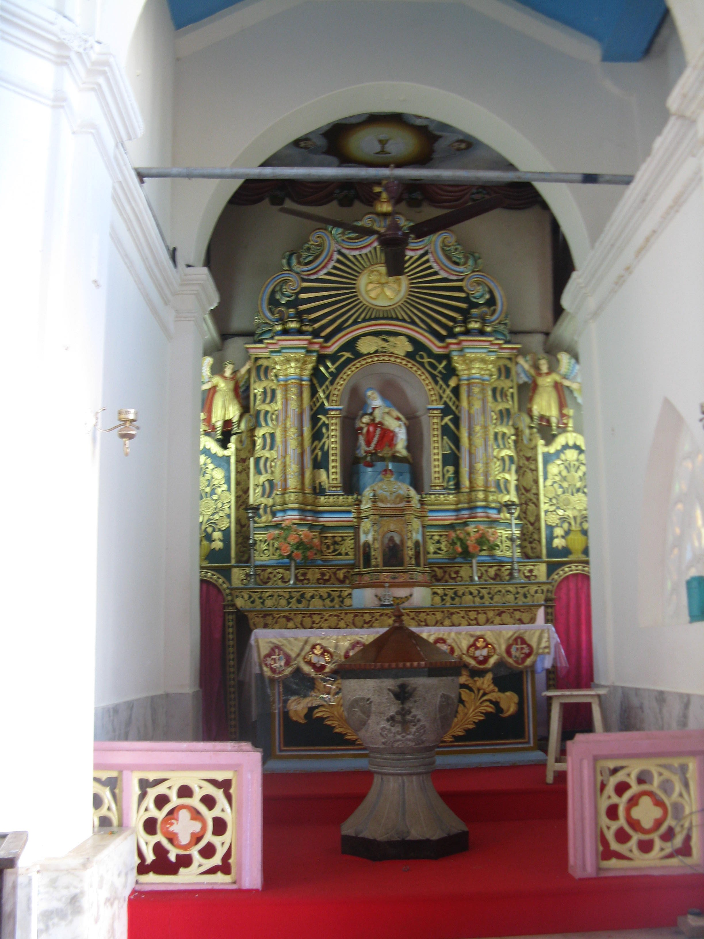 Left Side Altar of St.George Church,Edathua